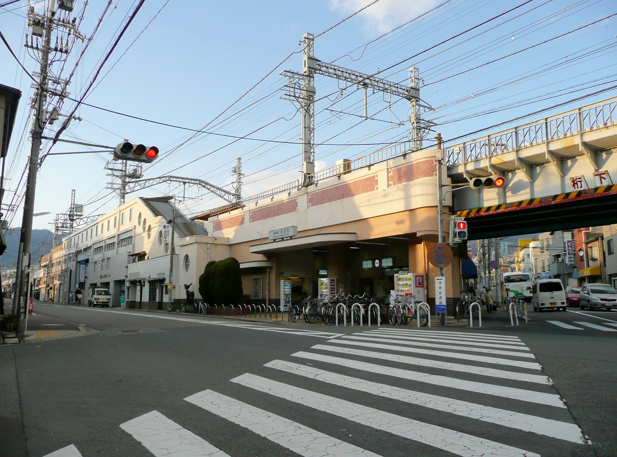 Hanshin Electric Railway,Main Line,Sumiyoshi Station. /阪神本線住吉駅